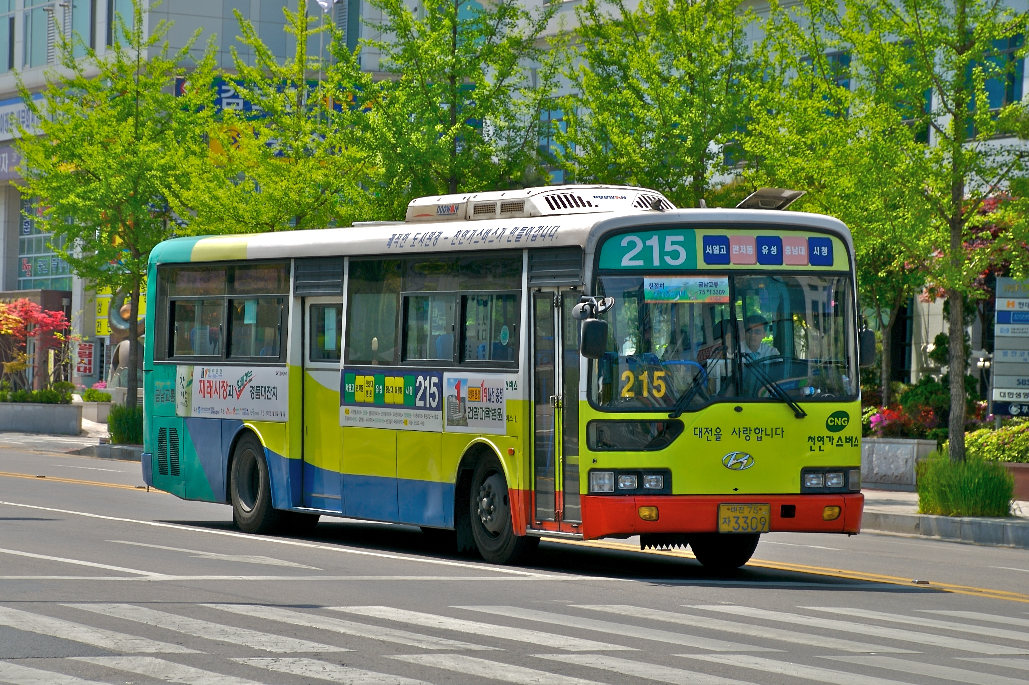 Photograph of one of the city buses in Daejeon, South Korea. The bus, which is a Hyundai Super Aero City, runs on compressed natural gas.